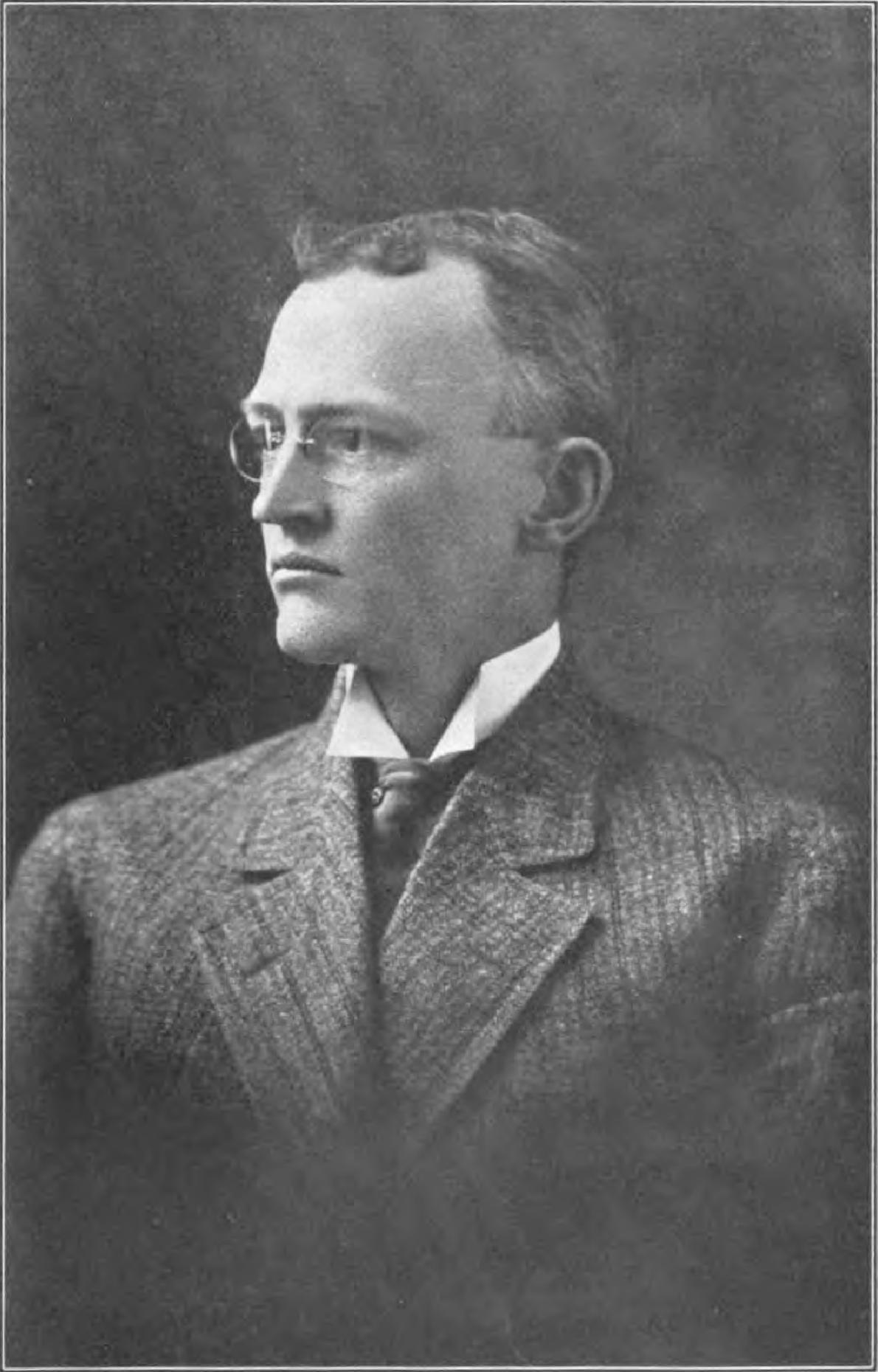 Library Journal v.36 (1911)